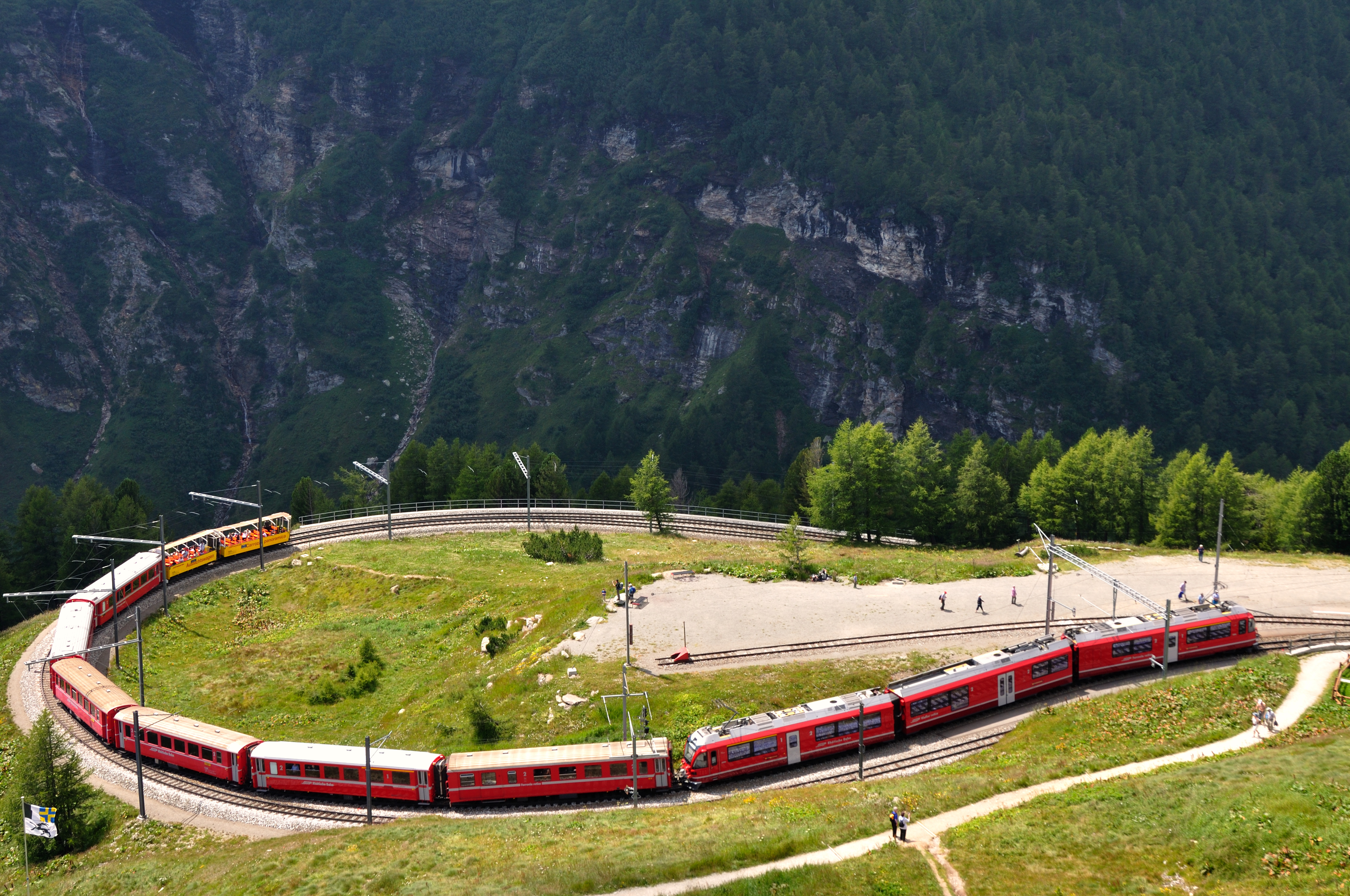 Switzerland, Graubünden, a North bound regional train with a new ABe 8/12 is entering Alp Grüm station